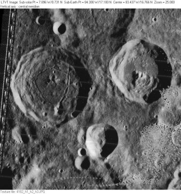 Dalton is the floor-fractured crater on the left. To its east, the crater with the swirling flow pattern on its floor is Balboa A (Balboa itself is half-visible at the top). To the southeast of Dalton is the keyhole-shaped and deeply shadowed 27-km diameter Vasco da Gama B.